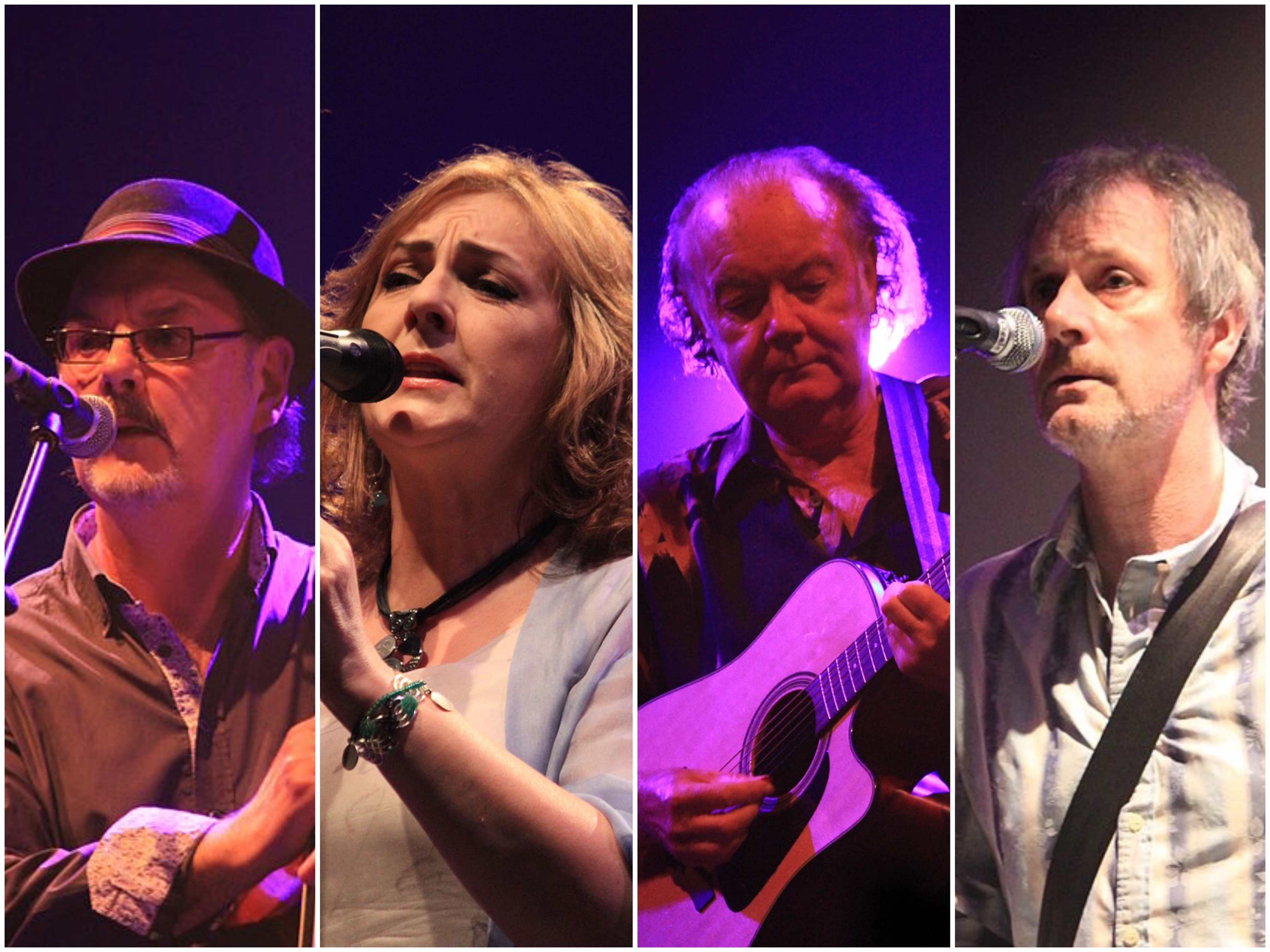 Irish band Clannad collage